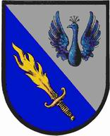 Coat of arms of Gleinstätten, Styria (-2014)